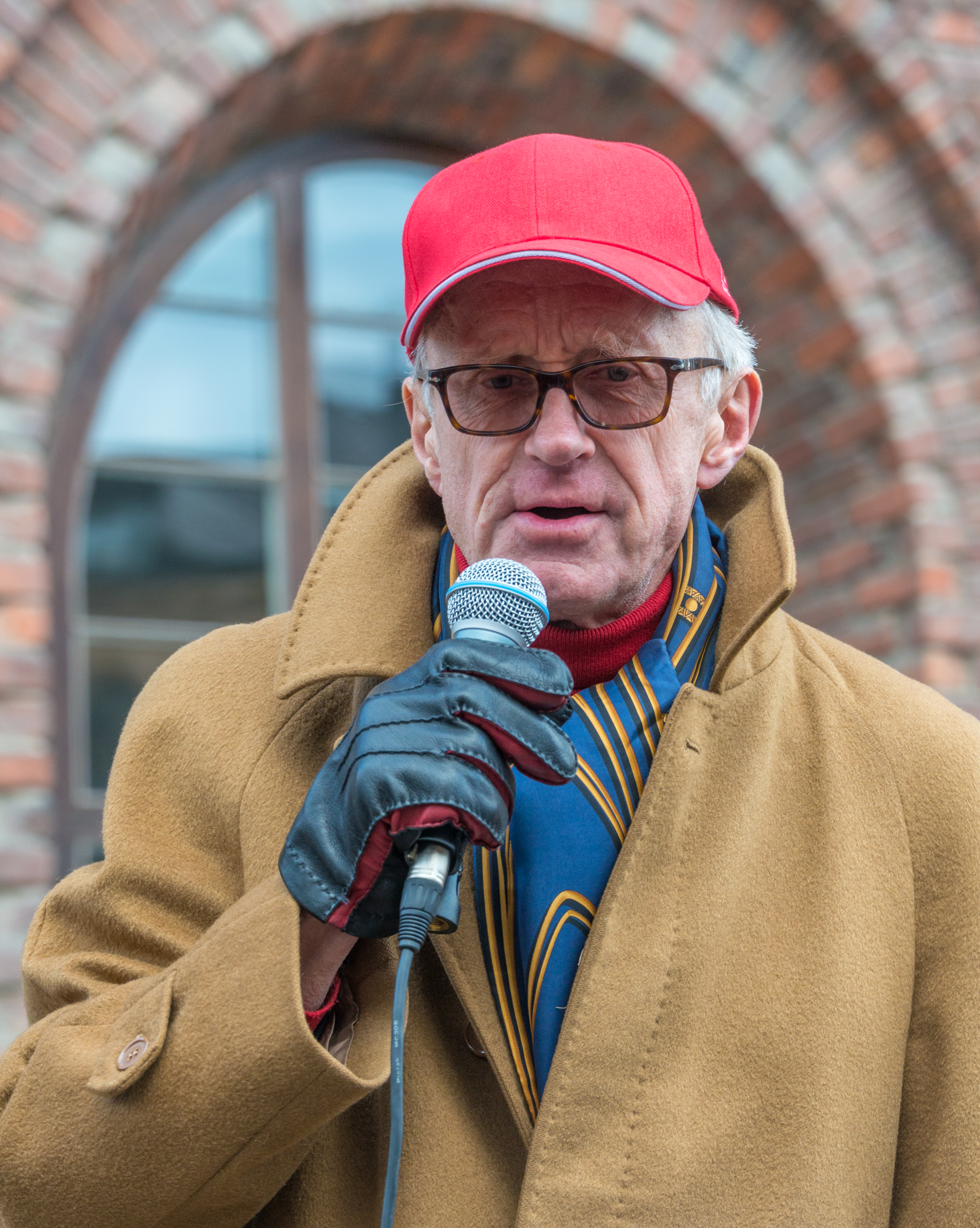 Björn Tarras-Wahlberg during a public demonstration against the Nobel Center and the demolition of the Customs House at Blasieholmen.